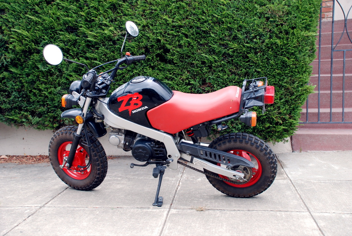 Picture of an example of a 1988 Honda ZB50.